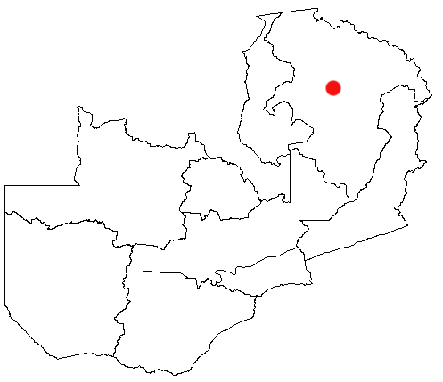 Kasama, Zambia Location Map; created with the GIMP. Made by User:Acntx.